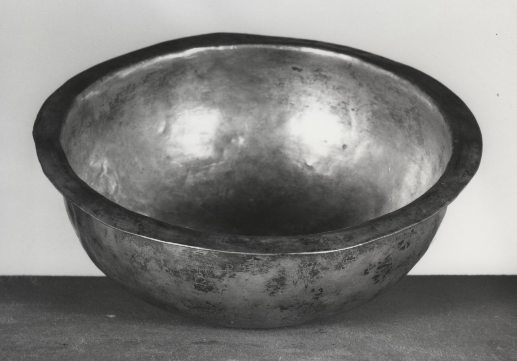 The interior, but not exterior surface of this bowl is finished, suggesting that it may have served as a liner to some other vessel. This bowl may have been set into a mount or stand of another material (such as marble or ivory) and may have been used for pouring water, either for hand washing or baptism.